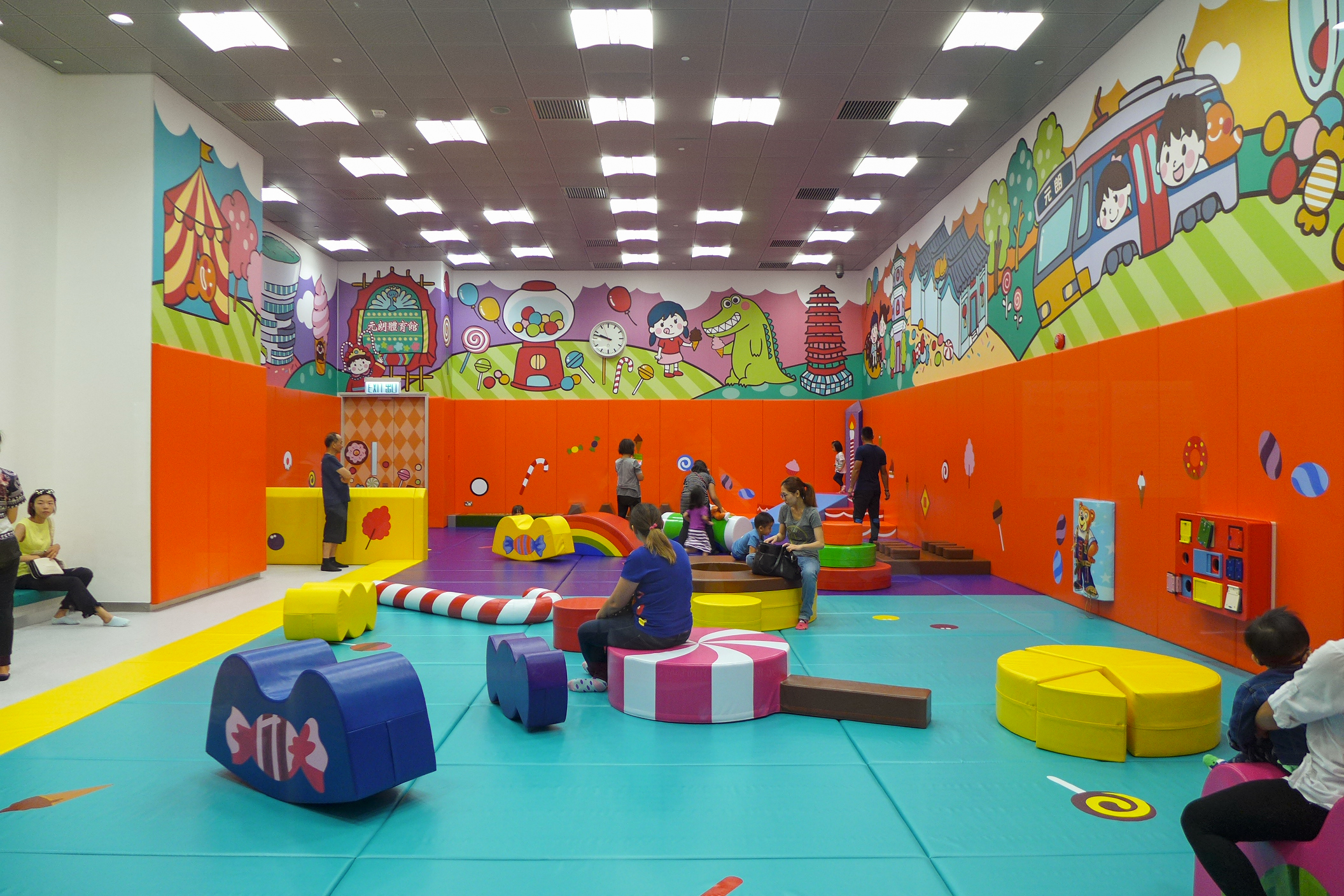 Yuen Long Sports Centre Children Play Room